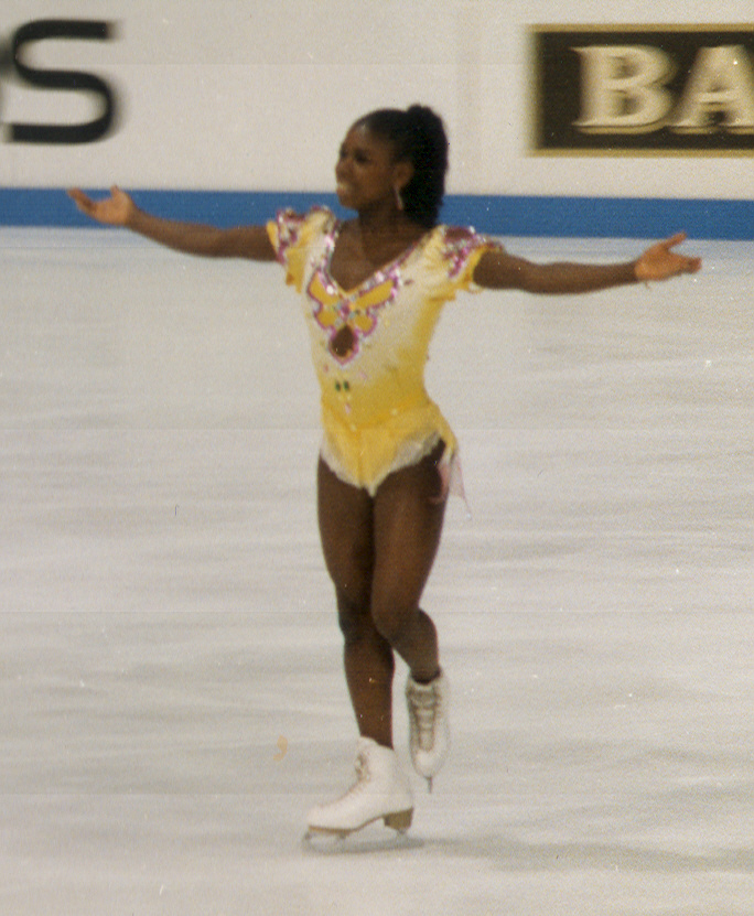 Surya Bonaly at the ISU-Schaulaufen in West-Berlin 1992